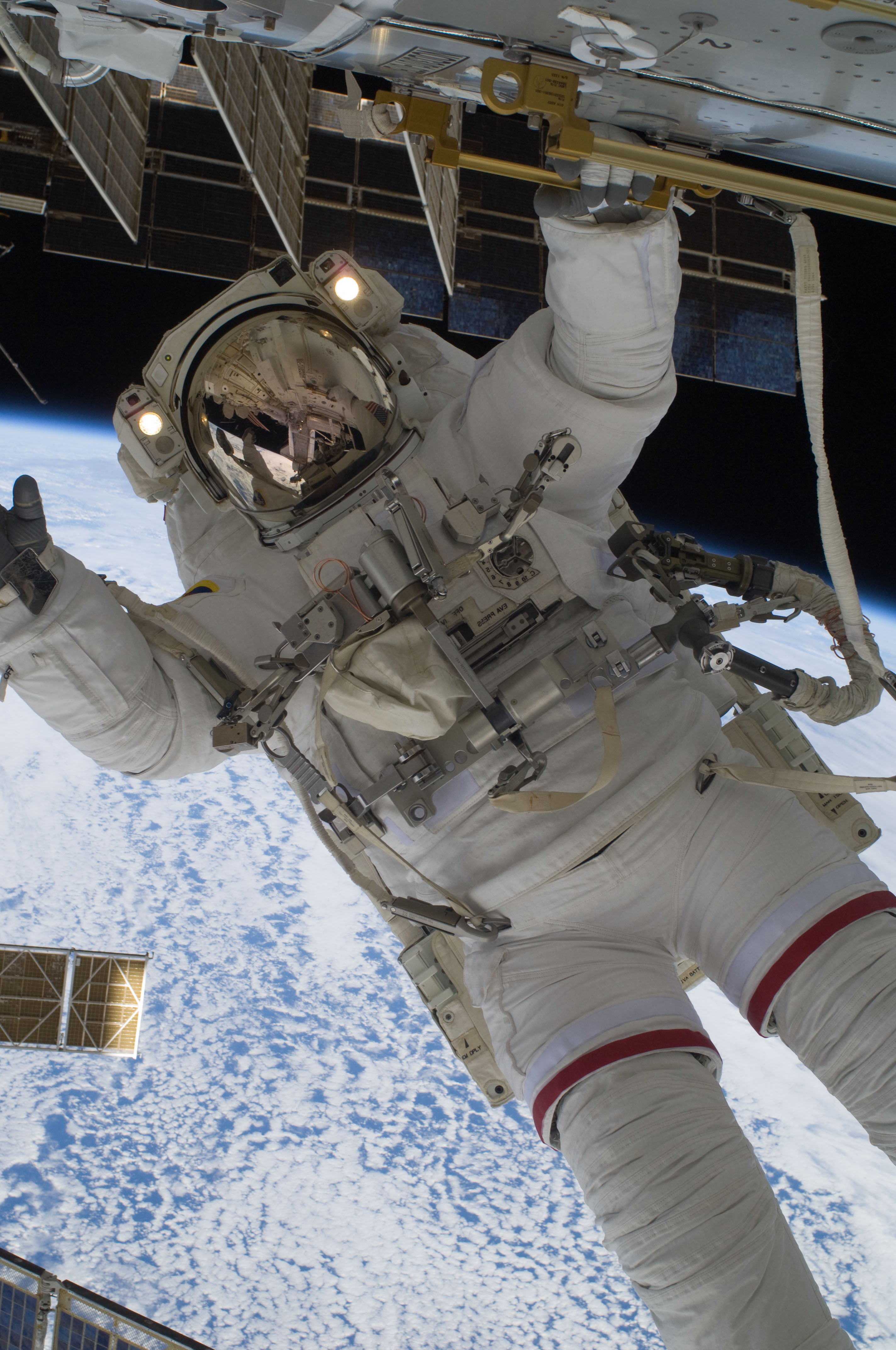 NASA astronaut Robert Behnken, STS-130 mission specialist, participates in the mission's first session of extravehicular activity (EVA) as construction and maintenance continue on the International Space Station. During the 6-hour, 32-minute spacewalk, Behnken and astronaut Nicholas Patrick (out of frame), mission specialist, relocated a temporary platform from the Special Purpose Dexterous Manipulator, or Dextre, to the station's truss structure and installed two handles on the robot. Once Tranquility was structurally mated to Unity, the spacewalkers connected heater and data cables that will integrate the new module with the rest of the station's systems. They also pre-positioned insulation blankets and ammonia hoses that will be used to connect Tranquility to the station's cooling radiators during the mission's second spacewalk.